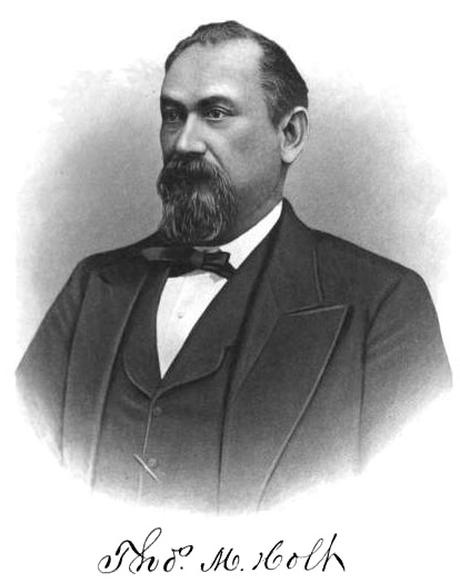 Portrait of North Carolina industrialist and Governor Thomas Michael Holt, native of Alamance County, North Carolina, and son of North Carolina textile industry pioneer Edwin Michael Holt.